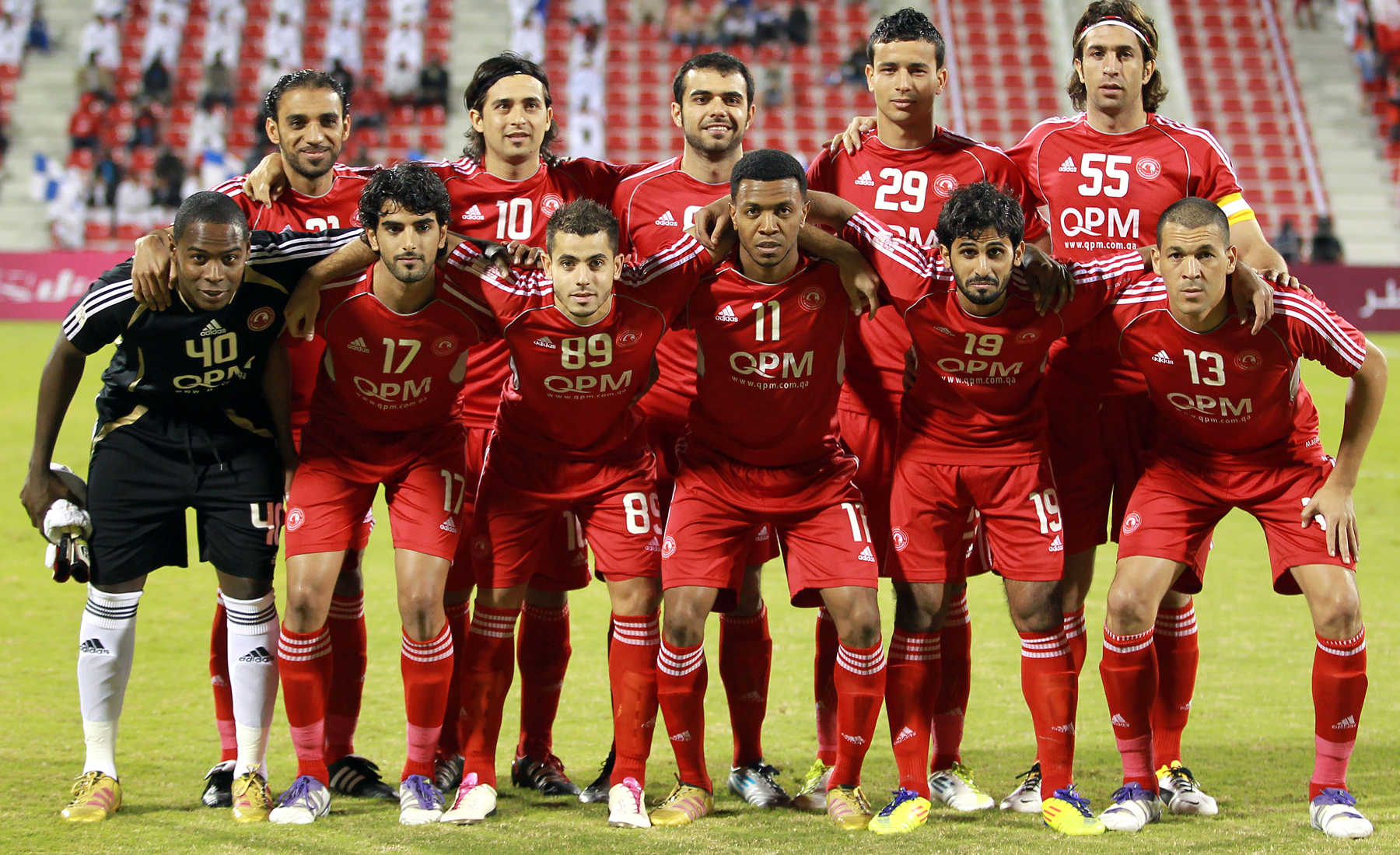 Members of the Al Arabi football club pose for a group picture prior to their Qatar Stars League match. Pic by AK Bijuraj